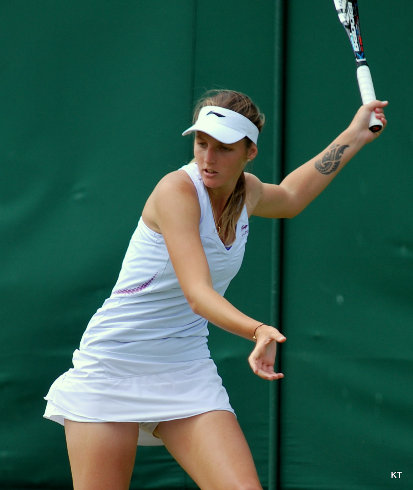 Kristyna Pliskova during her first round match with Polona Hercog on Day 2 of Wimbledon 2012.